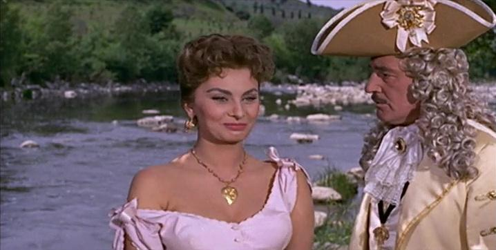 Sophia Loren and Vittorio De Sica in a scene of the Italian film La bella mugnaia by Mario Camerini